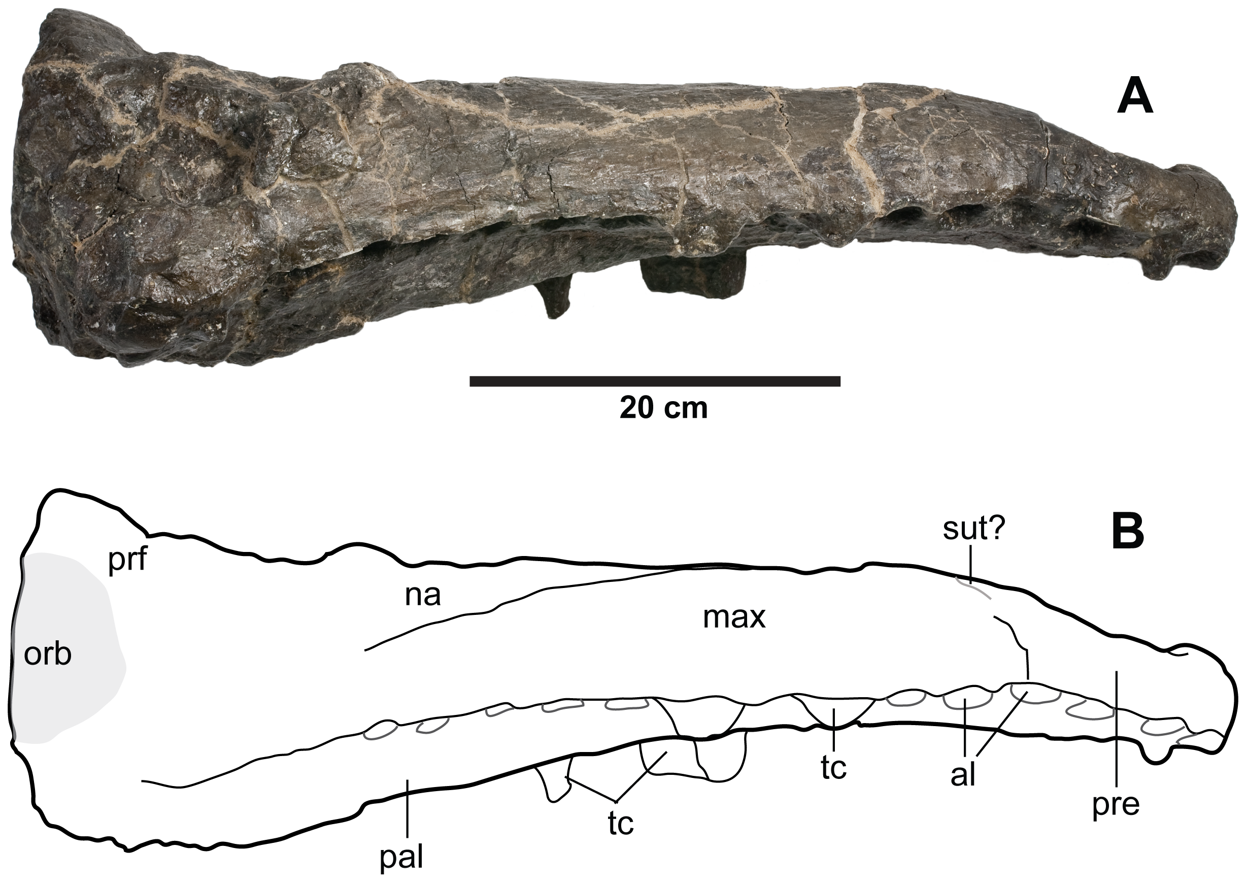 Plesiosuchus manselii, holotype NHMUK PV OR40103. Snout in lateral (right) view, (A) photograph and (B) line drawing (grey shaded area represents the orbital cavity, grey lines represents sutures we are unsure of). Abbreviations: al, alveolus; max, maxilla; na, nasal; orb, orbit; pal, palatine; pre, premaxilla; prf, prefrontal; sut?, suture?; tc, tooth crown.